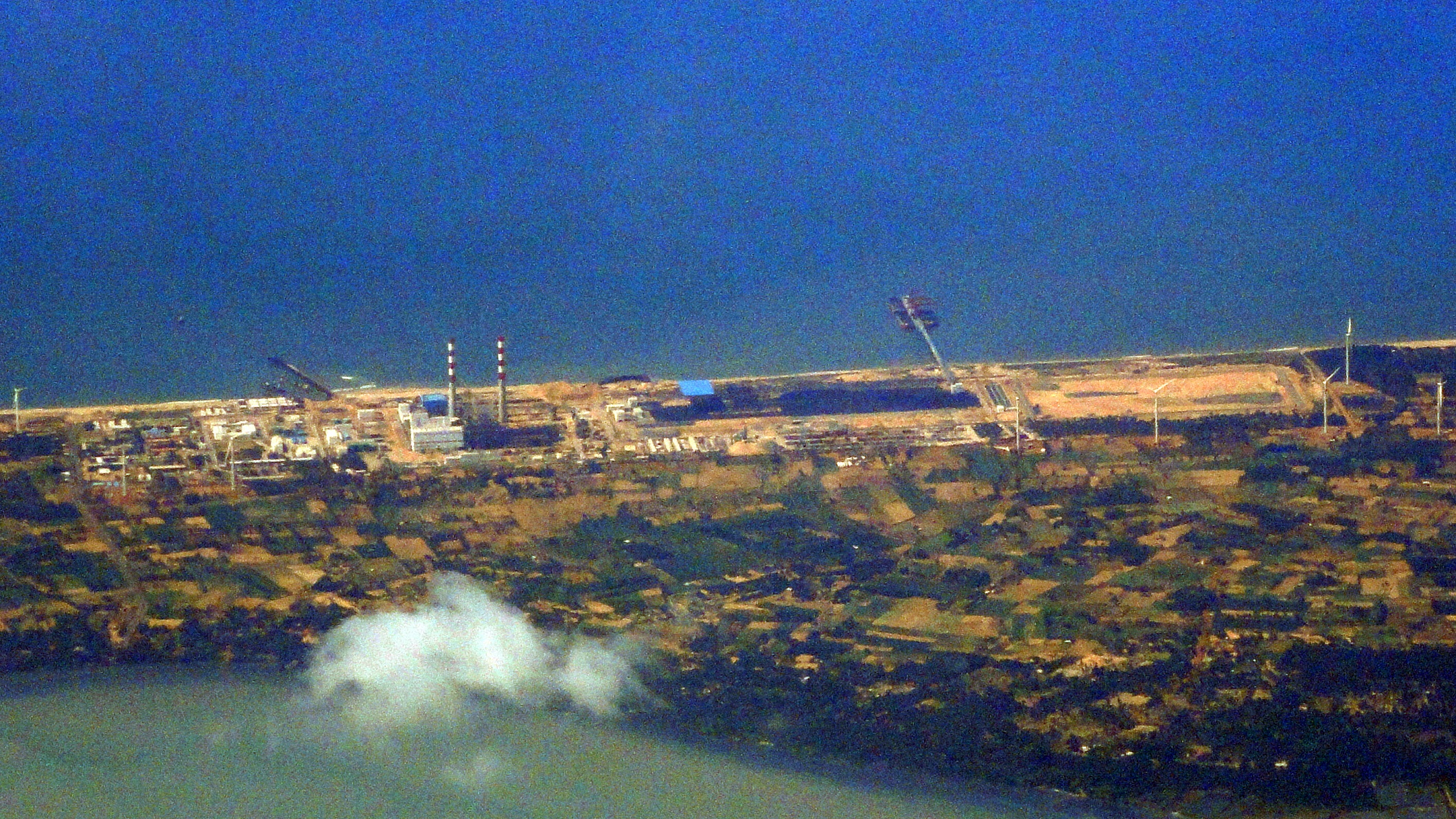 Aerial view of the Lakvijaya Power Station, surrounded by wind turbines belonging to the Madurankuliya Wind Farm. Puttalam District, Sri Lanka.